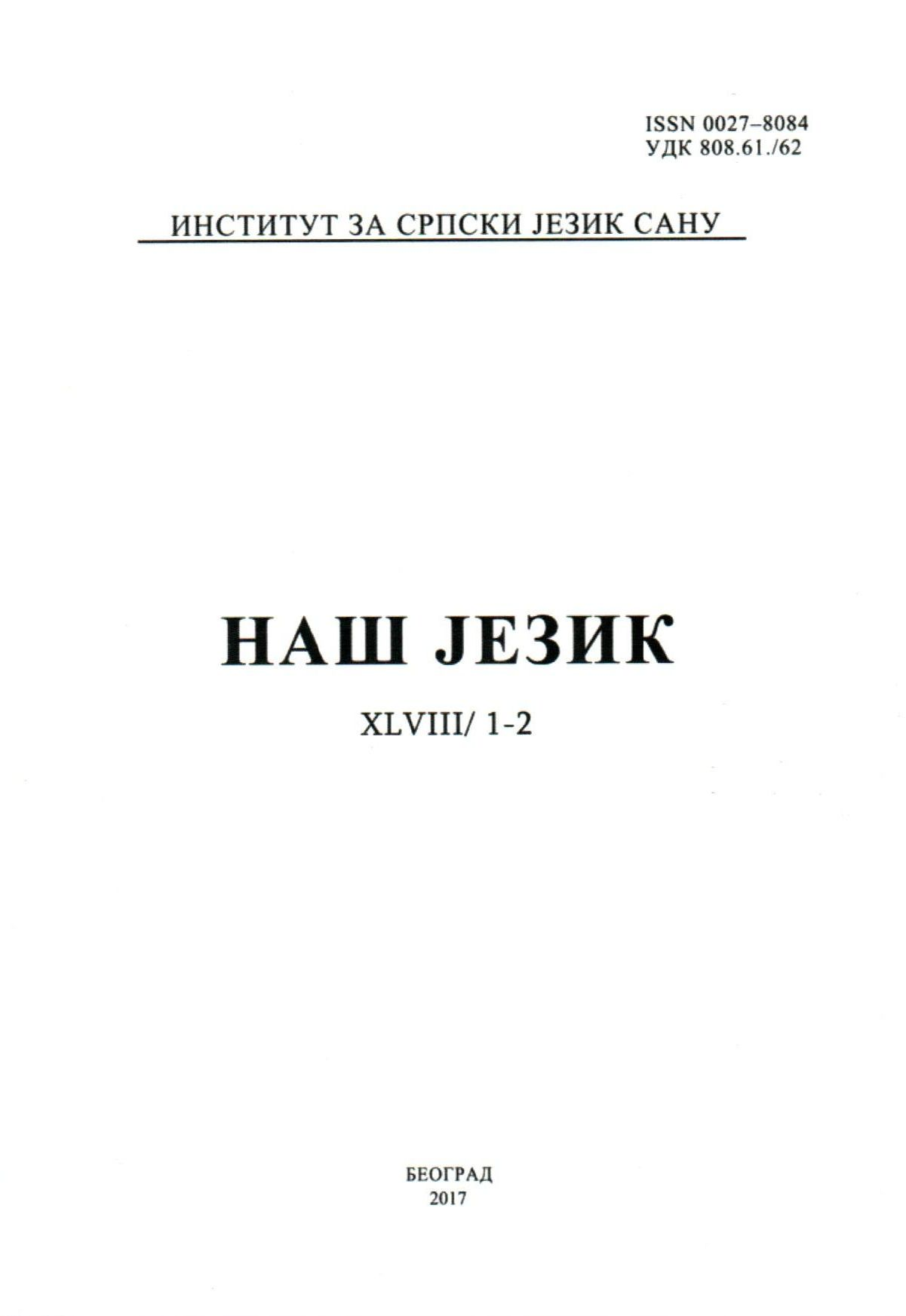 Cover of Serbian scientific journal Naš jezik, 2017.